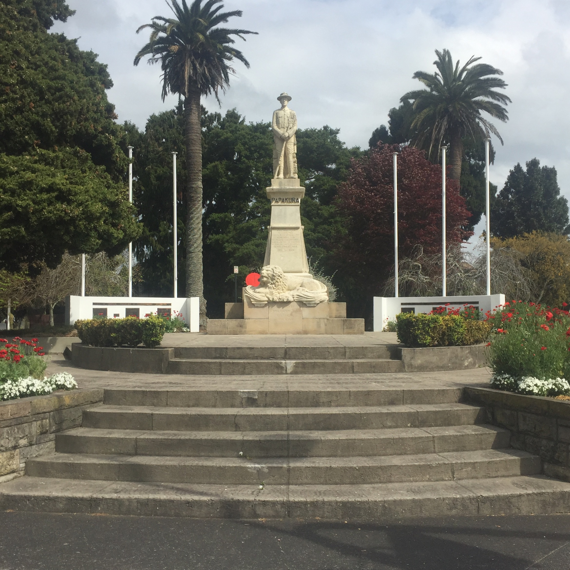 The Papakura War Memorial with a statue representing a typical Anzac soldier wearing one of their distinctive 'Lemon Squeezer' hats. The flower beds are planted with poppies, the flower which is used as a commemorative symbol for World War I.